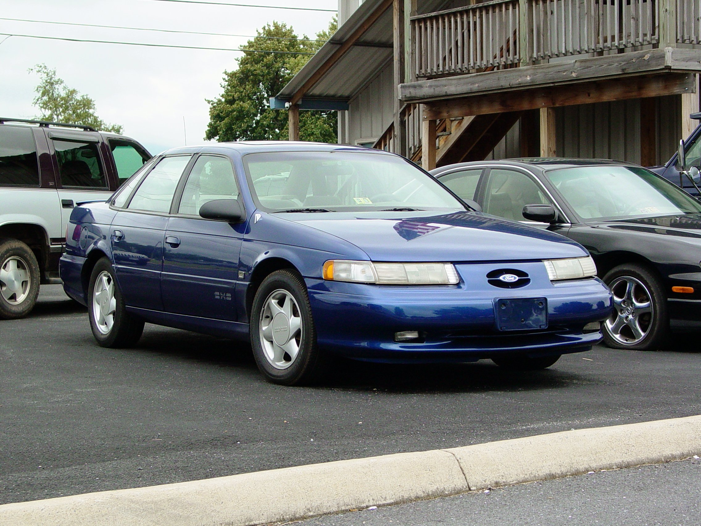 Second-generation Ford Taurus SHO. Photographed by Ben Schumin on September 5, 2006 at Kiser Auto Sales in Stuarts Draft, Virginia.